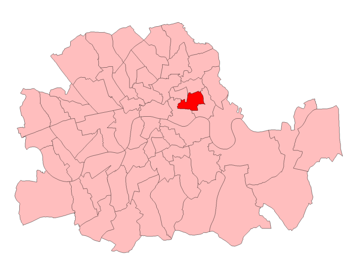 A map of Mile End constituency within the London County Council area, as it existed from 1918 to 1949.